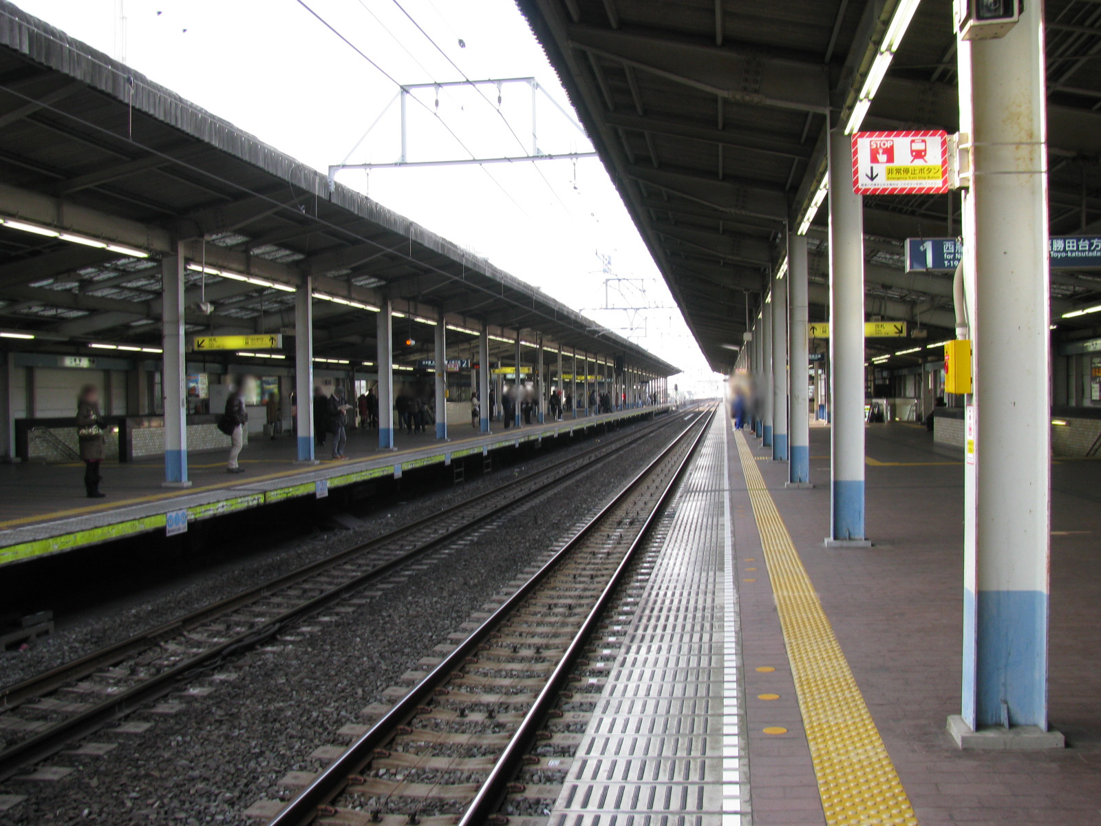 Urayasu station on Tokyo Metro Tozai Line